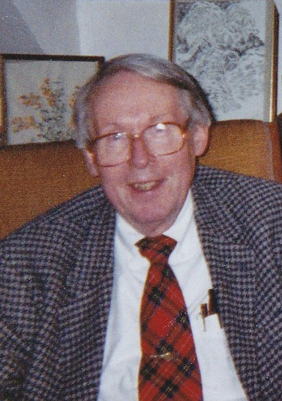 A picture of the philosopher Jaakko Hintikka in 2003